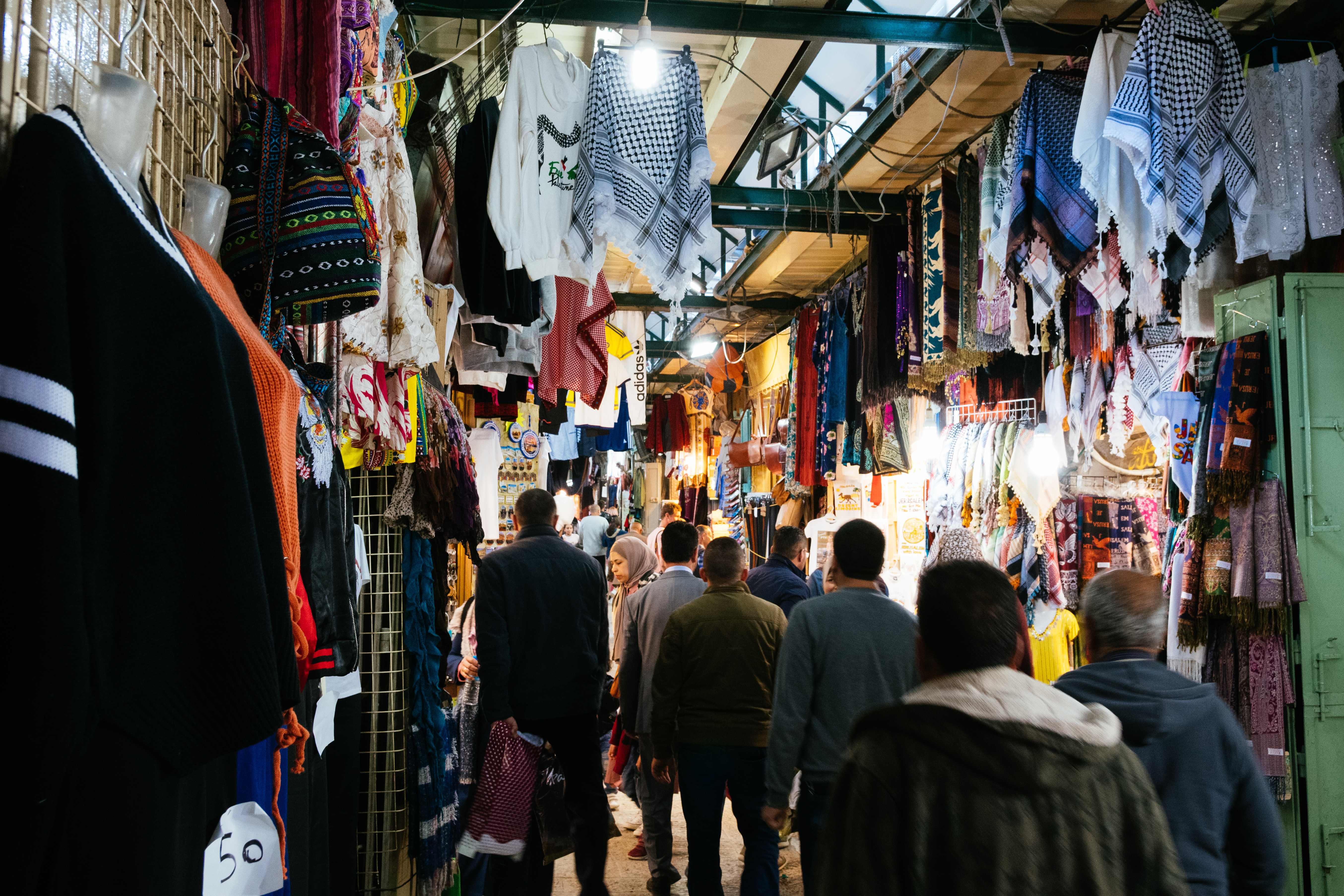 A market in the old city of Jerusalem